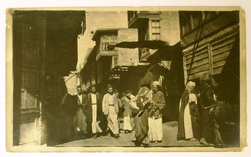 Street Scene, Baghdad, Iraq, World War I, 1917-1919